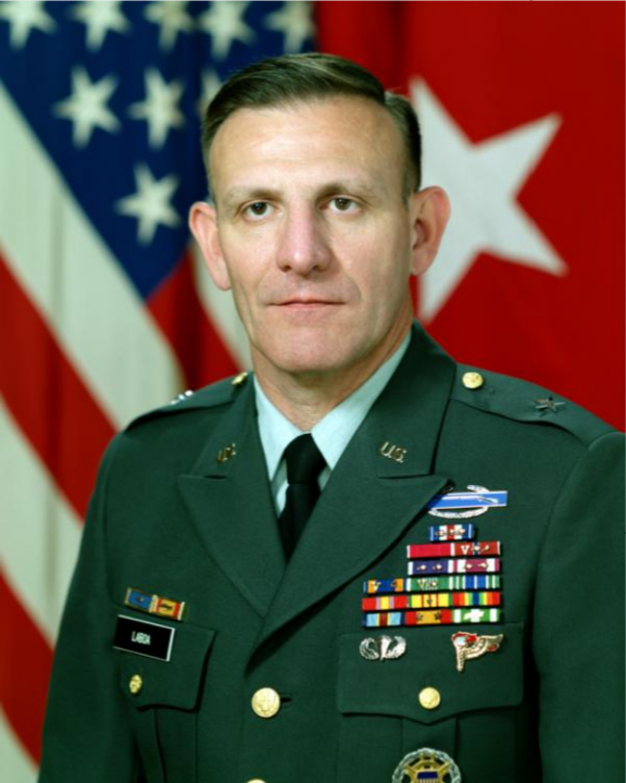 Guy A. J. LaBoa as a brigadier general, circa 1987.